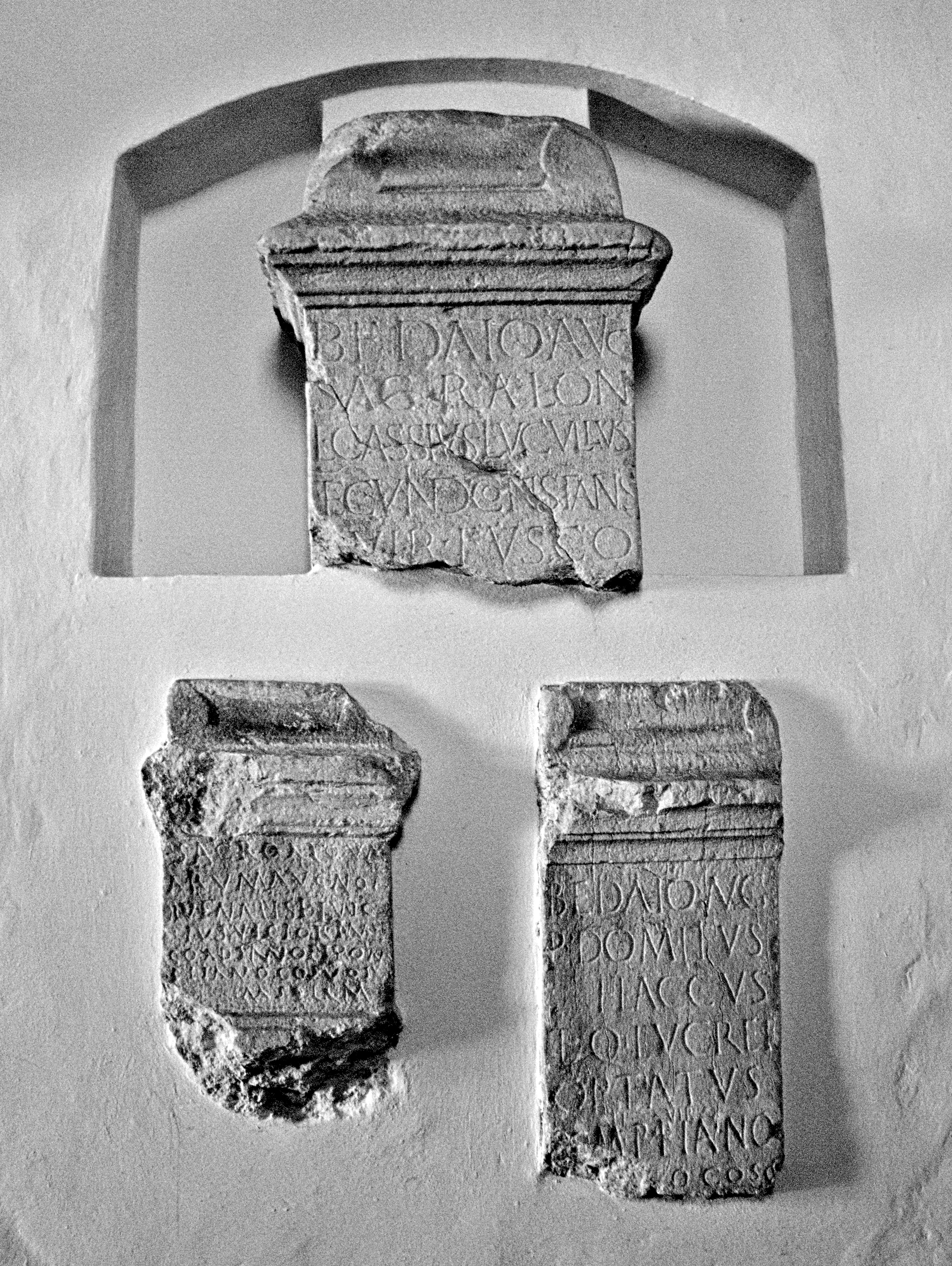 Three Roman dedication altar, found 1882 in an demolished church, walled in parish church of Chieming, district Traunstein, Upper Bavaria, Germany